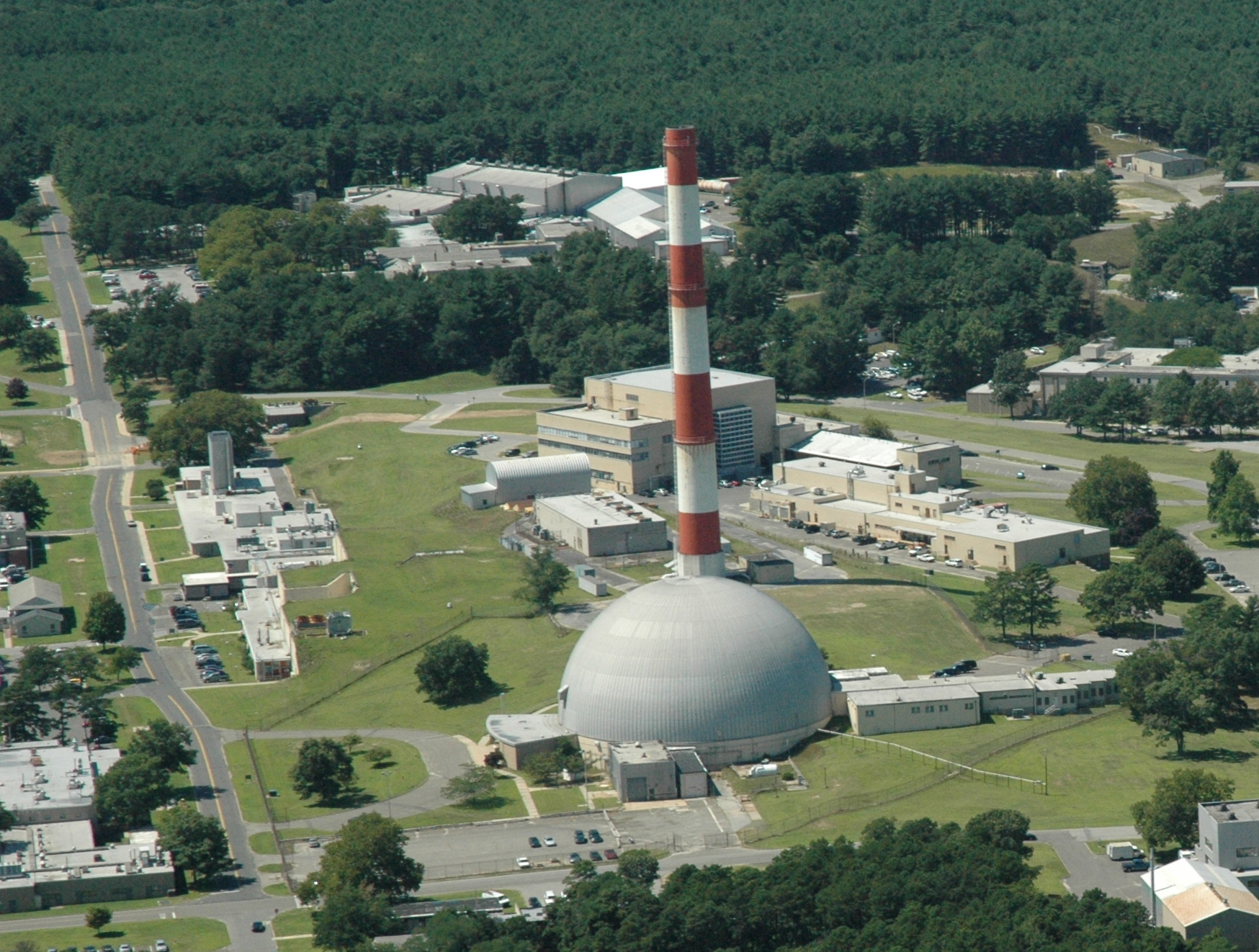 High Flux Beam Reactor (HFBR) with Brookhaven Graphite Research Reactor (BGRR) in the Background